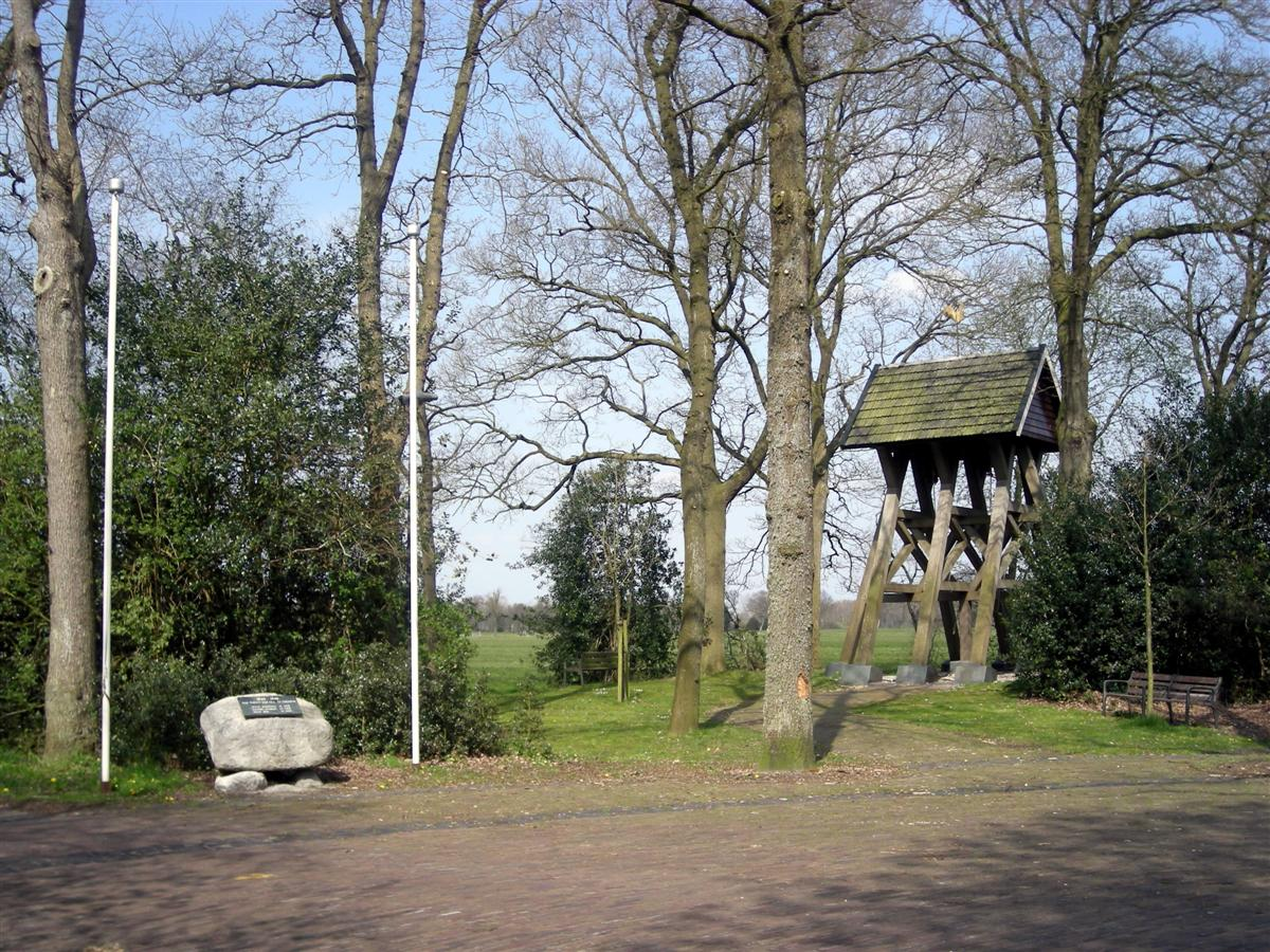 wooden bell tower and war memorial in Katlijk, Friesland, Netherlands